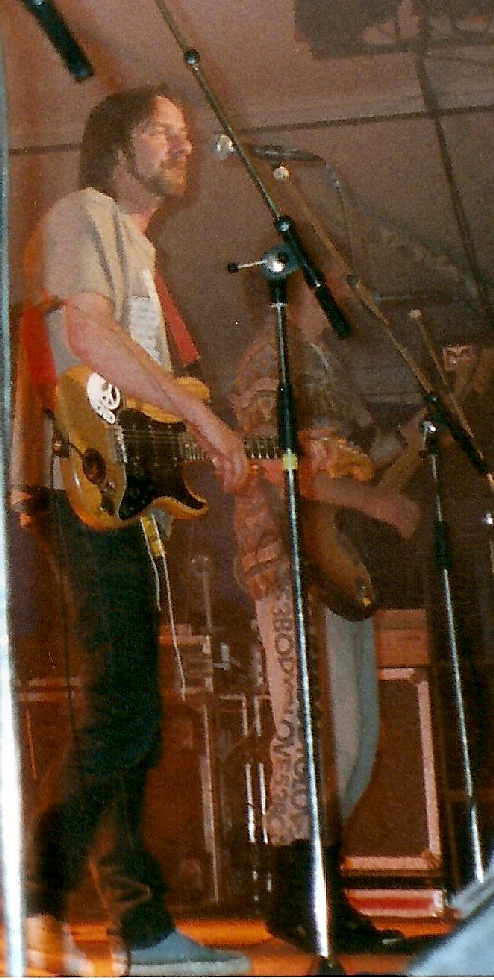 Alan Hull on stage with Lindisfarne, Village Pump Festival 1991